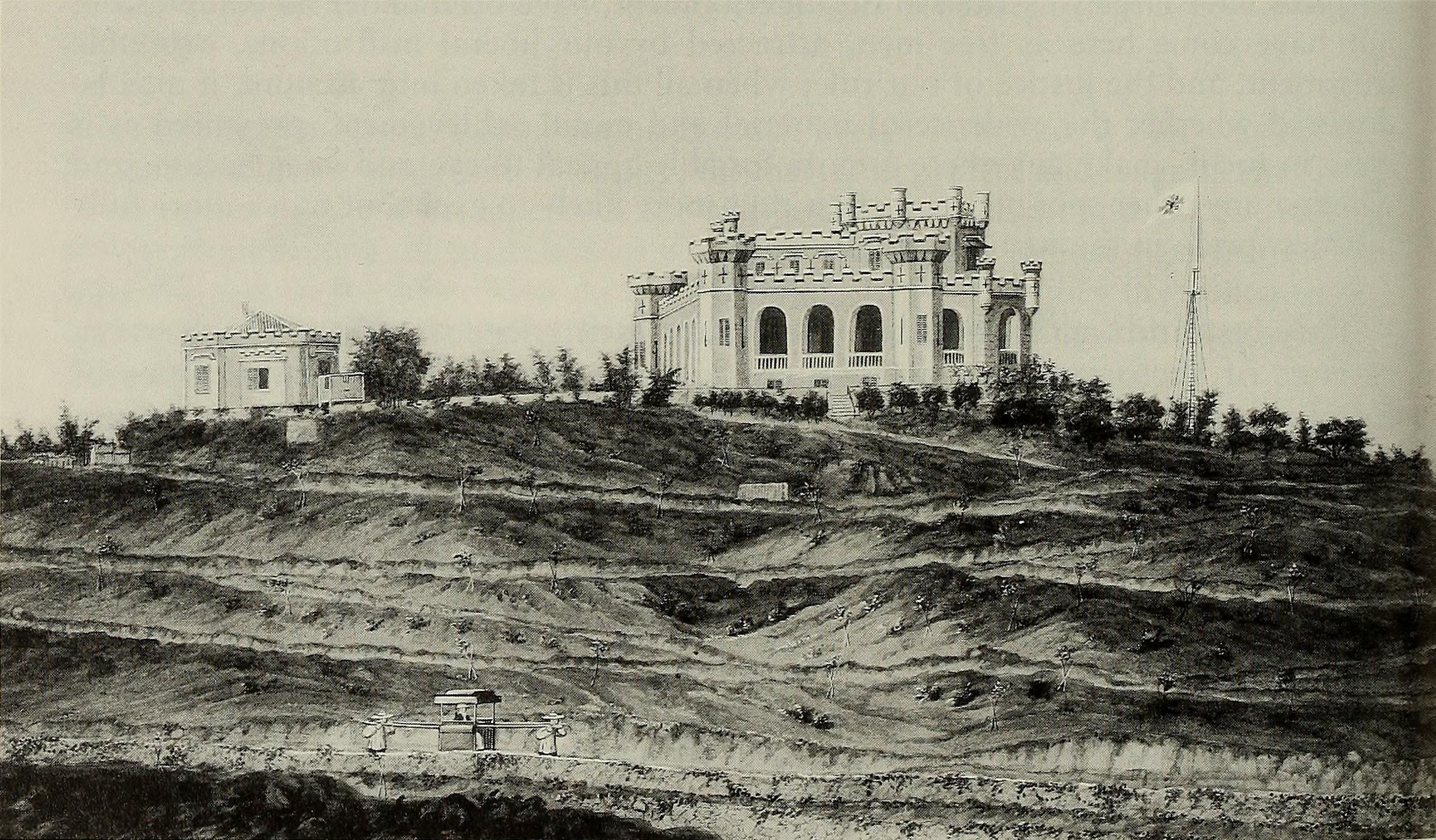 At Pok Fu Lam, Douglas Lapraik, the watchmaker who became a shipping magnate, built Douglas Castle with its machicolated turrets. A sedan chair and its occupant are being conveyed along the road in this Chinese rendering of the scene.